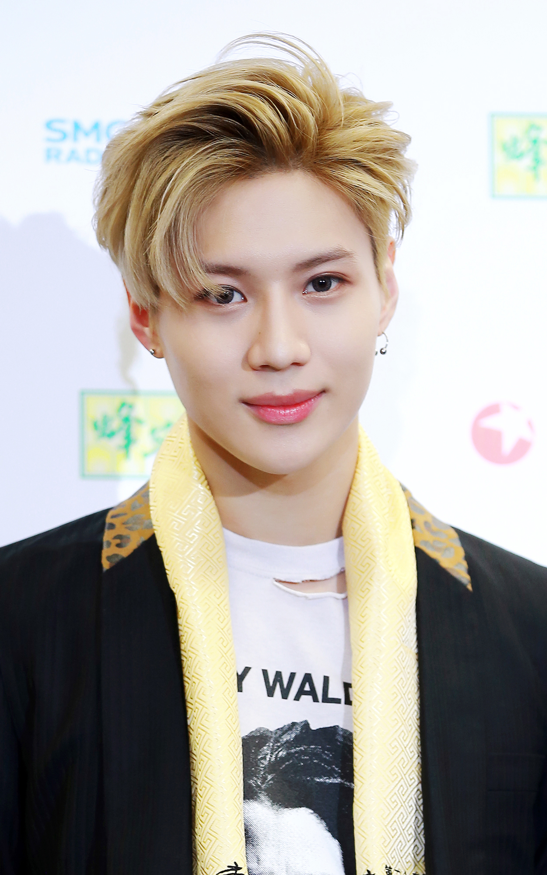 Lee Tae-min at the 23rd Dong Fang Feng Yun Bang Awards, on March 28 2016.